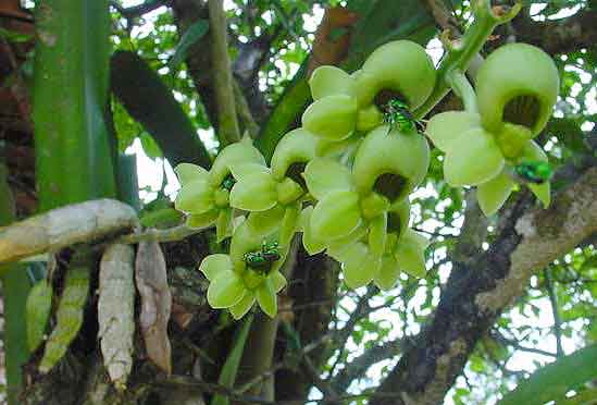 Catasetum macrocarpum. Euglossine bees on female flowers.